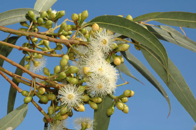 Foliage, buds and flowers of Eucalyptus canaliculata in the Australian National Botanic Gardens